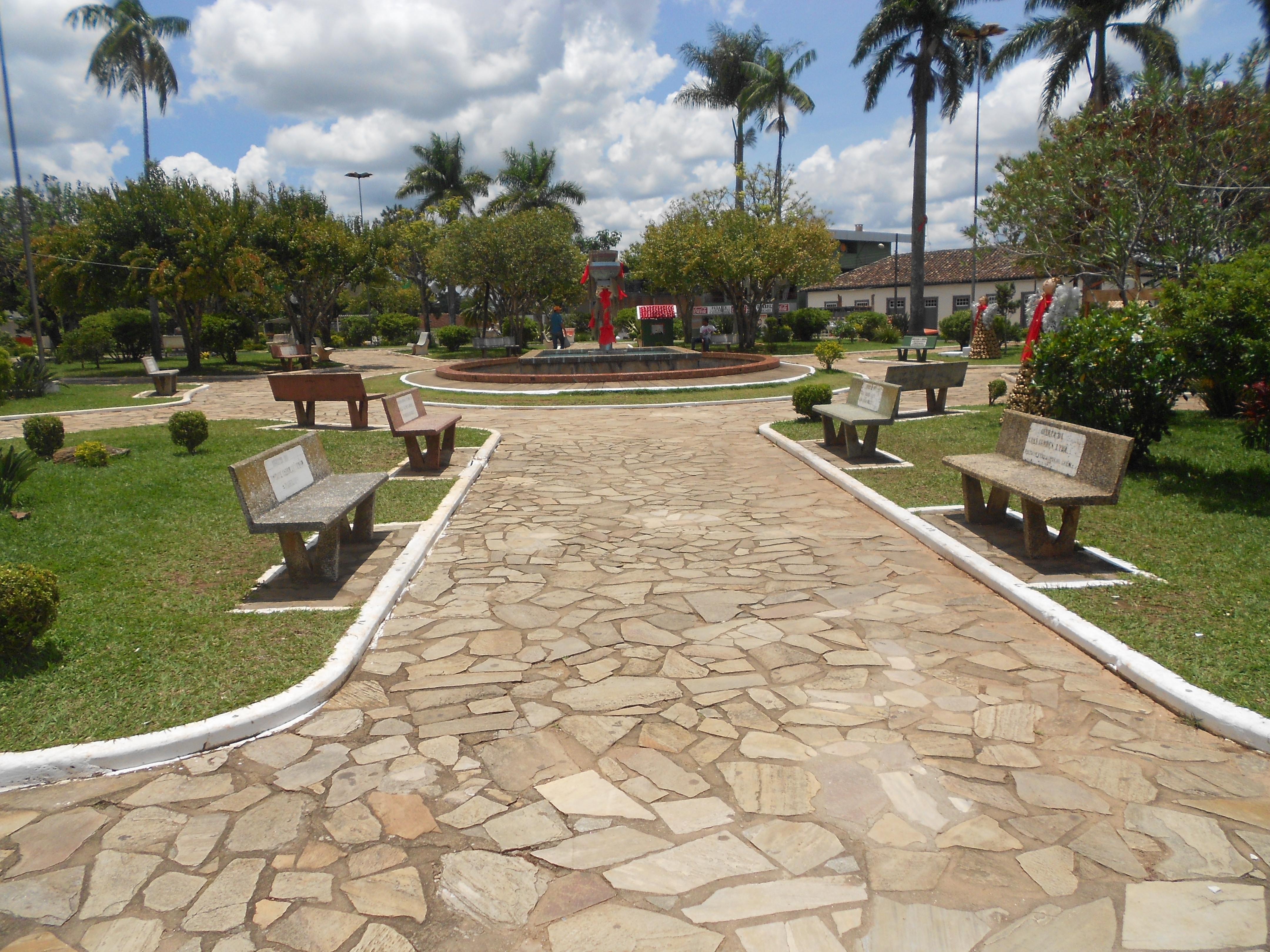 Governador Valadares Square, in São Vicente de Minas downtown, Minas Gerais, Brazil.